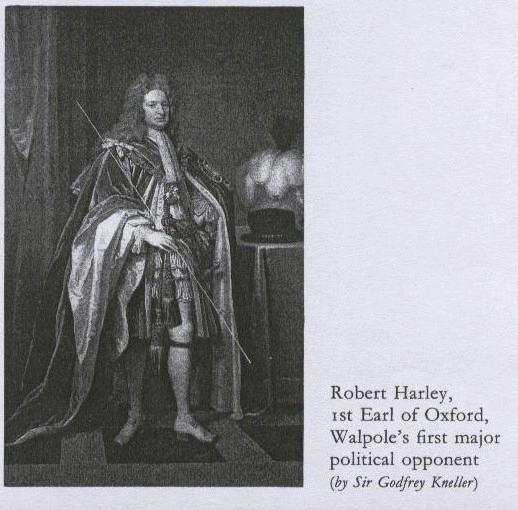 picture of british polititian of 18th C. Robert Harley